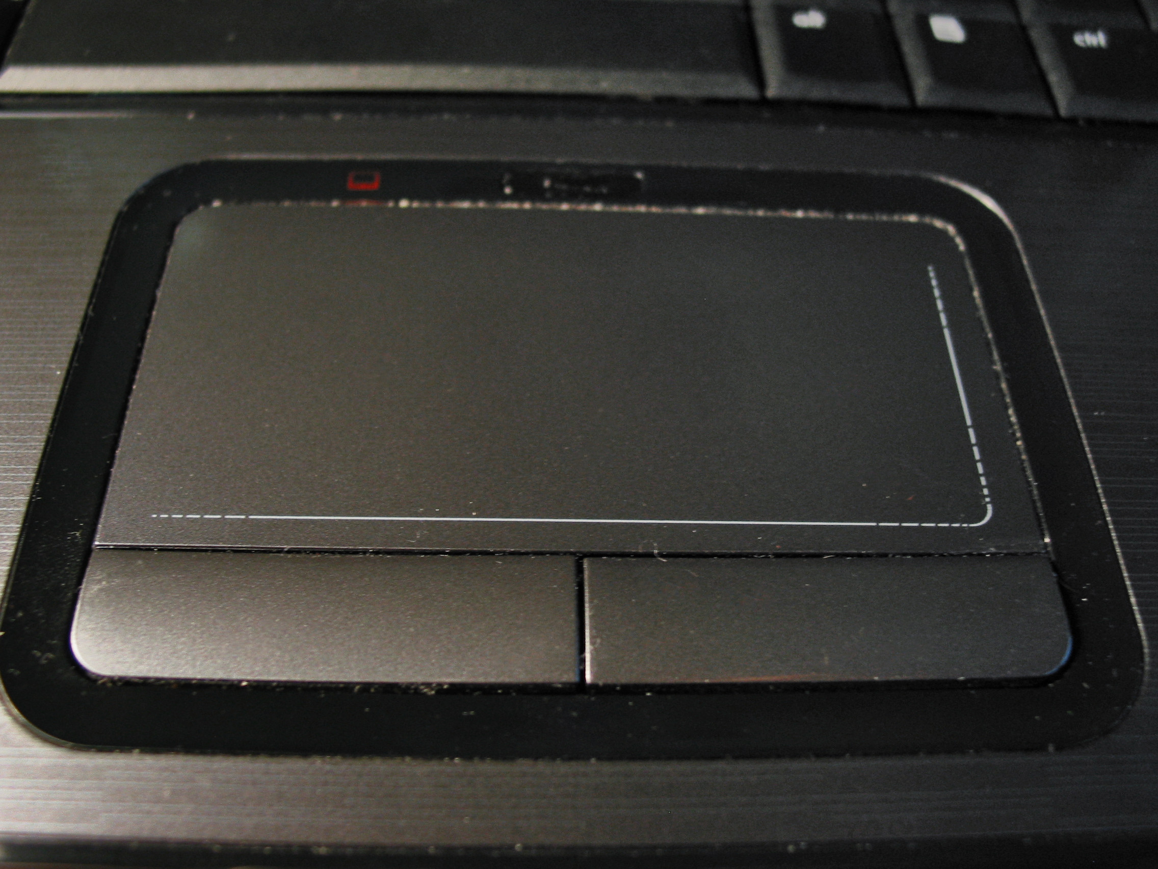 Photographed by me; Touch pad on my Compaq Presario V6620us